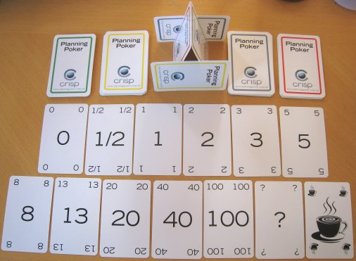 Planning Poker card deck